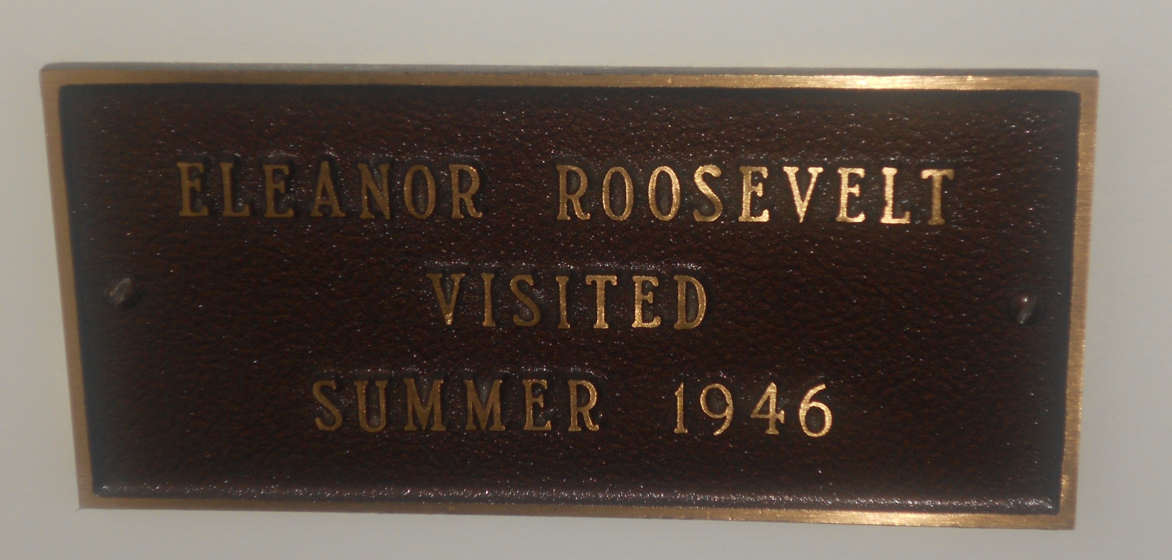 Sign inside the Selbyville Public Library commemorating the historic visit by Eleanor Roosevelt in 1946